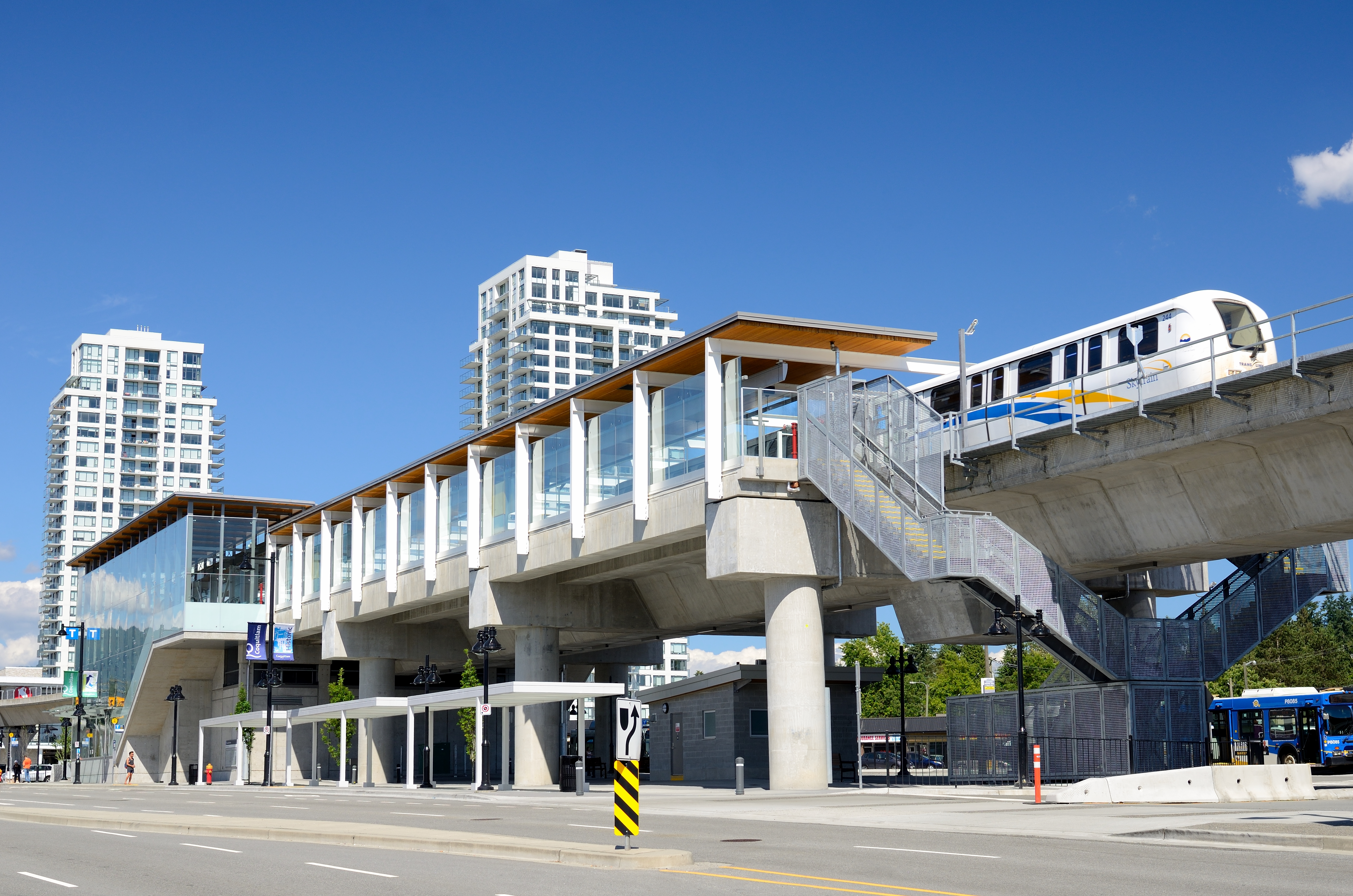 Exterior shot of Burquitlam Station Station on the Millenium Line.